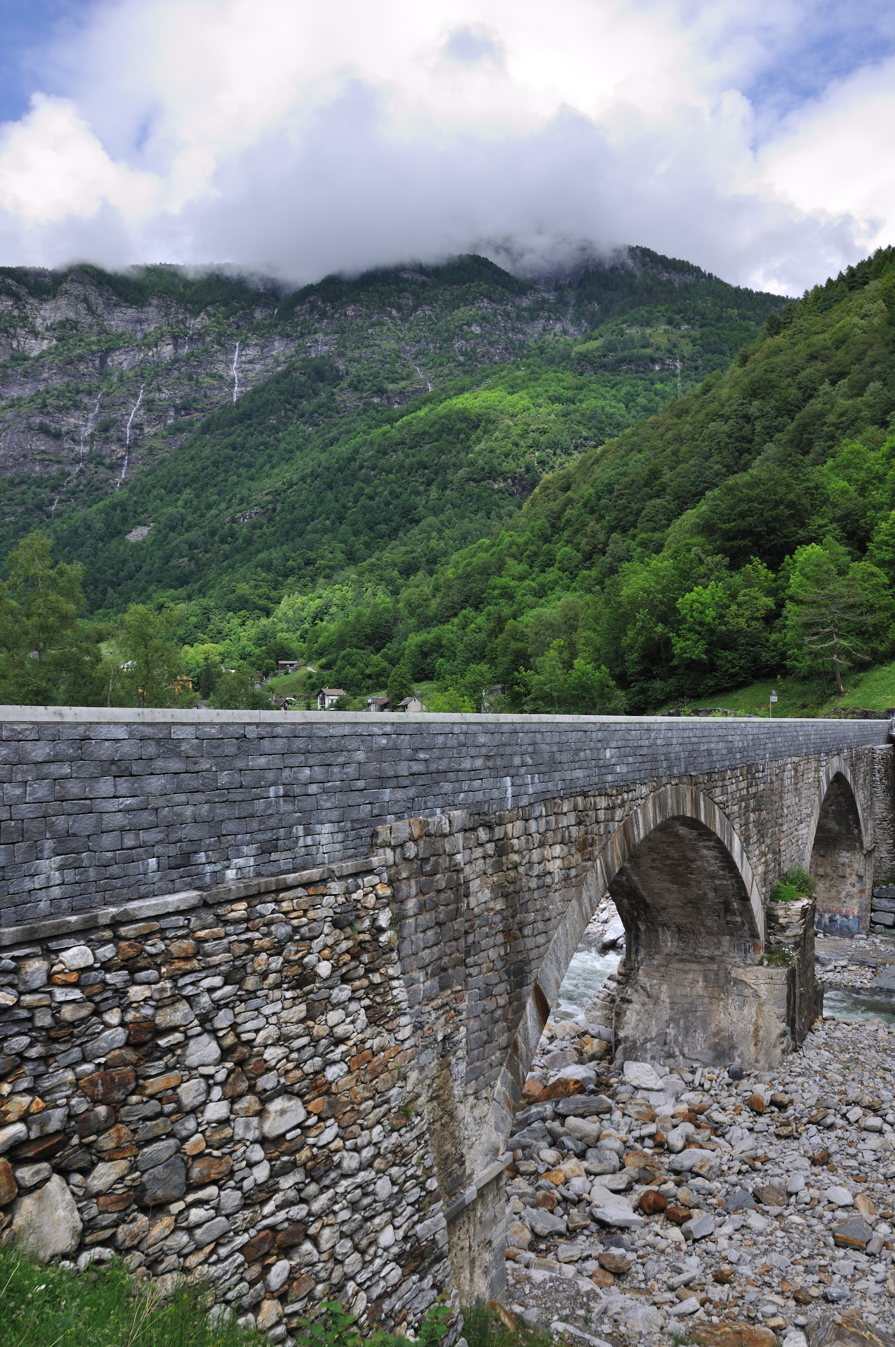 Switzerland, Ticino, hiking in the Verzasca valley